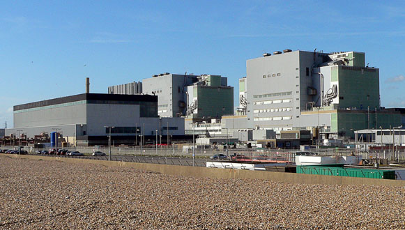 Dungeness Power Station What a strange edifice to find in a Nature Reserve!